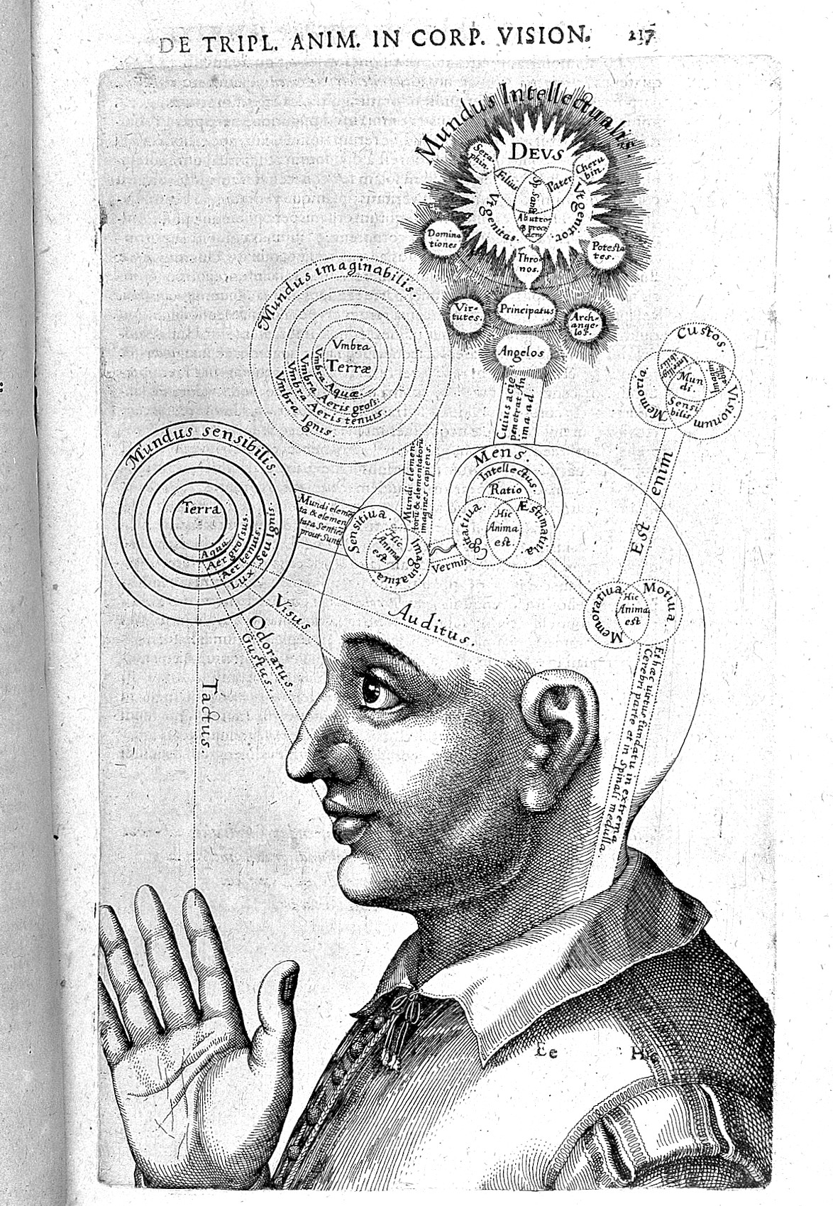 Head and shoulders of a man in profile with a mass of interconnected orbs and stars within and above his head. Rare Books